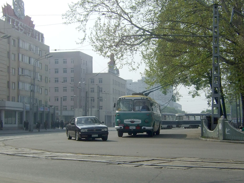 Bus terminal in front of Pyongyang Station, DPRK. Trolleybus 801 is a type Chollima-70.